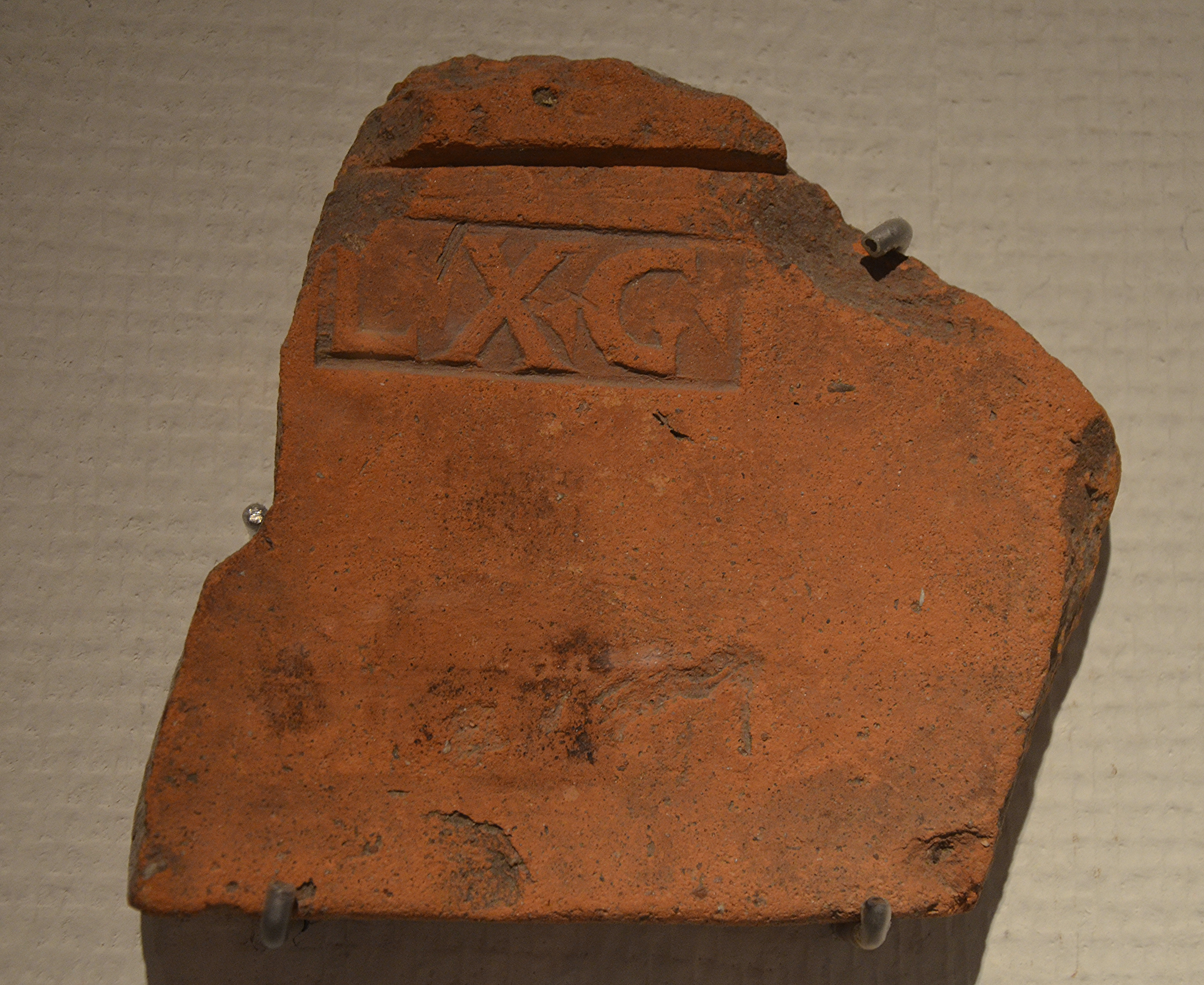 Under the Flavian dynasty X Gemina was in Nijmegen, with XXII Primigenia. In 70, after the Batavian rebellion was suppressed by Vespasian, X Gemina was sent to Batavia in Germania Inferior to police the lands and prevent new revolts. From 71 to 103, the legion was stationed at the base built by II Adiutrix at Oppidum Batavorum, the present day Dutch city of Nijmegen. A. D. 70-89 As part of the army of Germania Inferior, X Gemina fought against the rebellion of the governor of Germania Superior, L. Antonius Saturninus, against Emperor Domitian. For this reason, the Tenth — as well as the other legions of the army, I Minervia, VI Victrix, and XXII Primigenia — received the title Pia Fidelis Domitiana, "faithful and loyal to Domitian", with the reference to the Emperor dropped at his death. CIL XIII, 12216, 2.